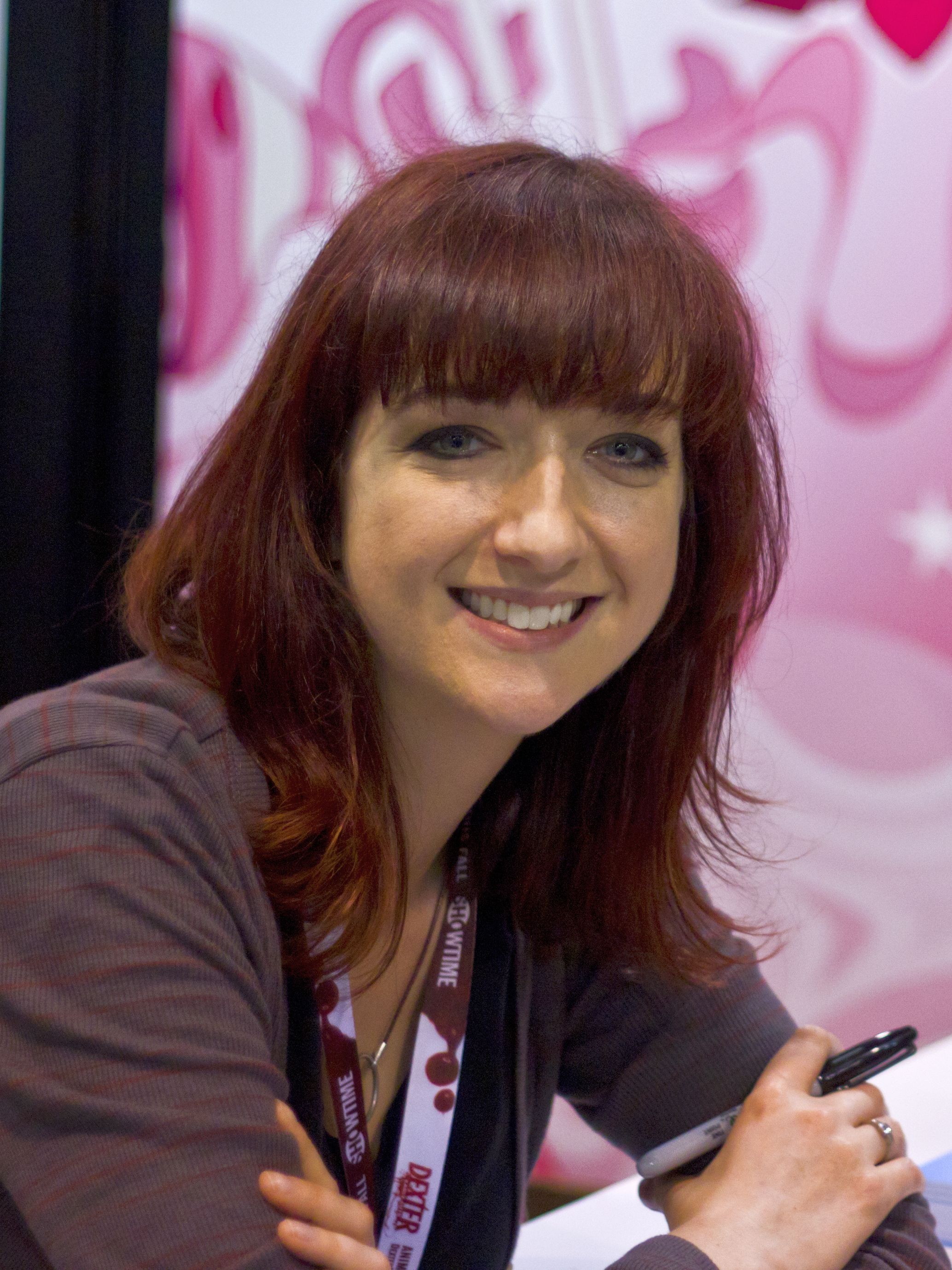 Lauren Faust at the 2012 WonderCon